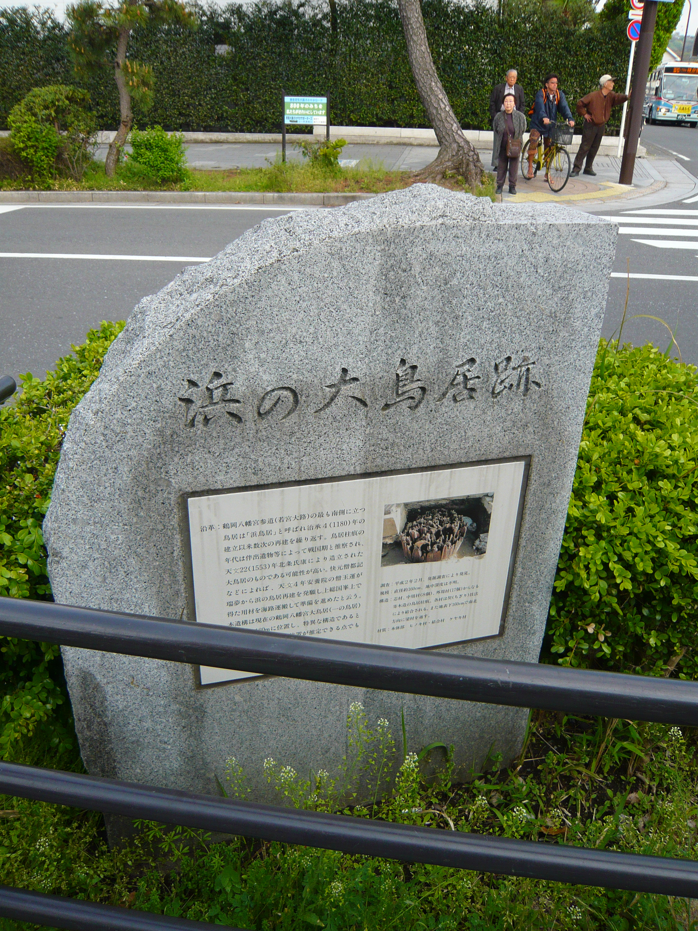 The stone that marks the original position of the Hama no Ōtorii in Kamakura